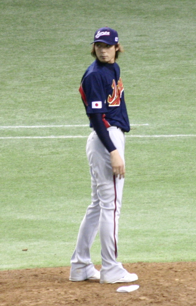 Hiroyuki Kobayashi, pitcher of the Japan national baseball team, at Tokyo Dome.